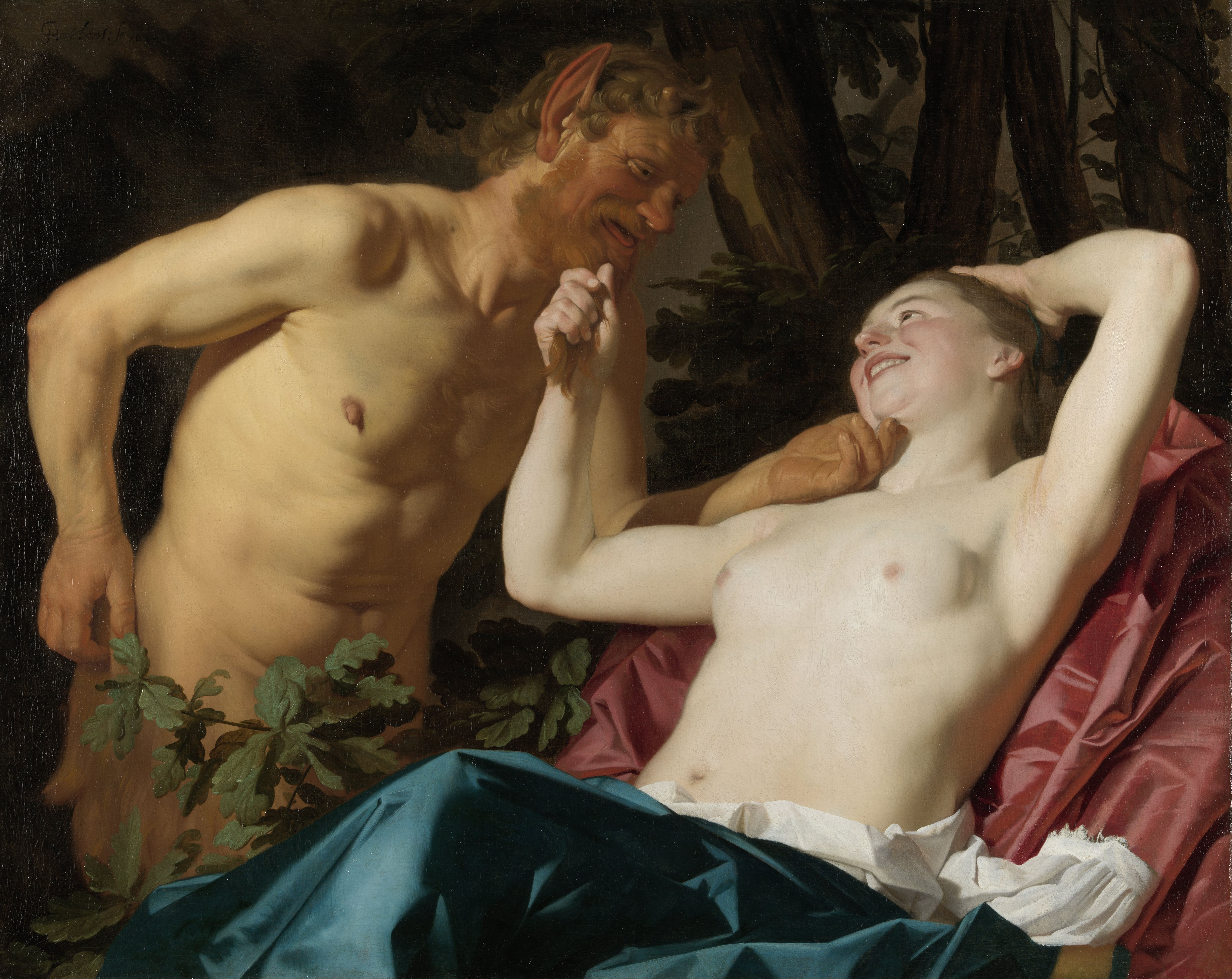 Nymph and satyr oil on canvas 104 x 131 cm signed t.l.: G.v. Honthorst: fe 1623